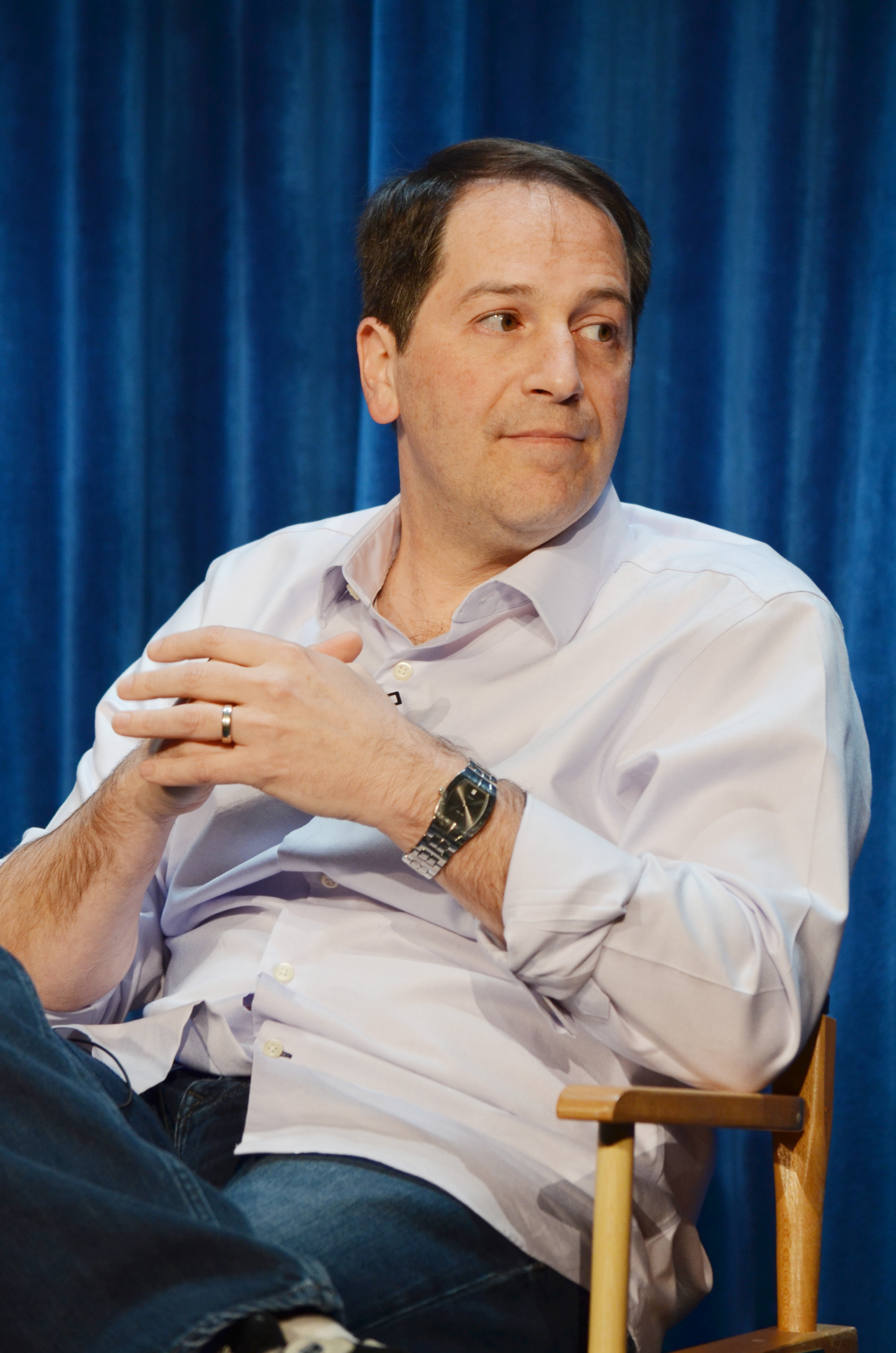 Aaron Korsh 2013 at a promotional event for the TV show Suits